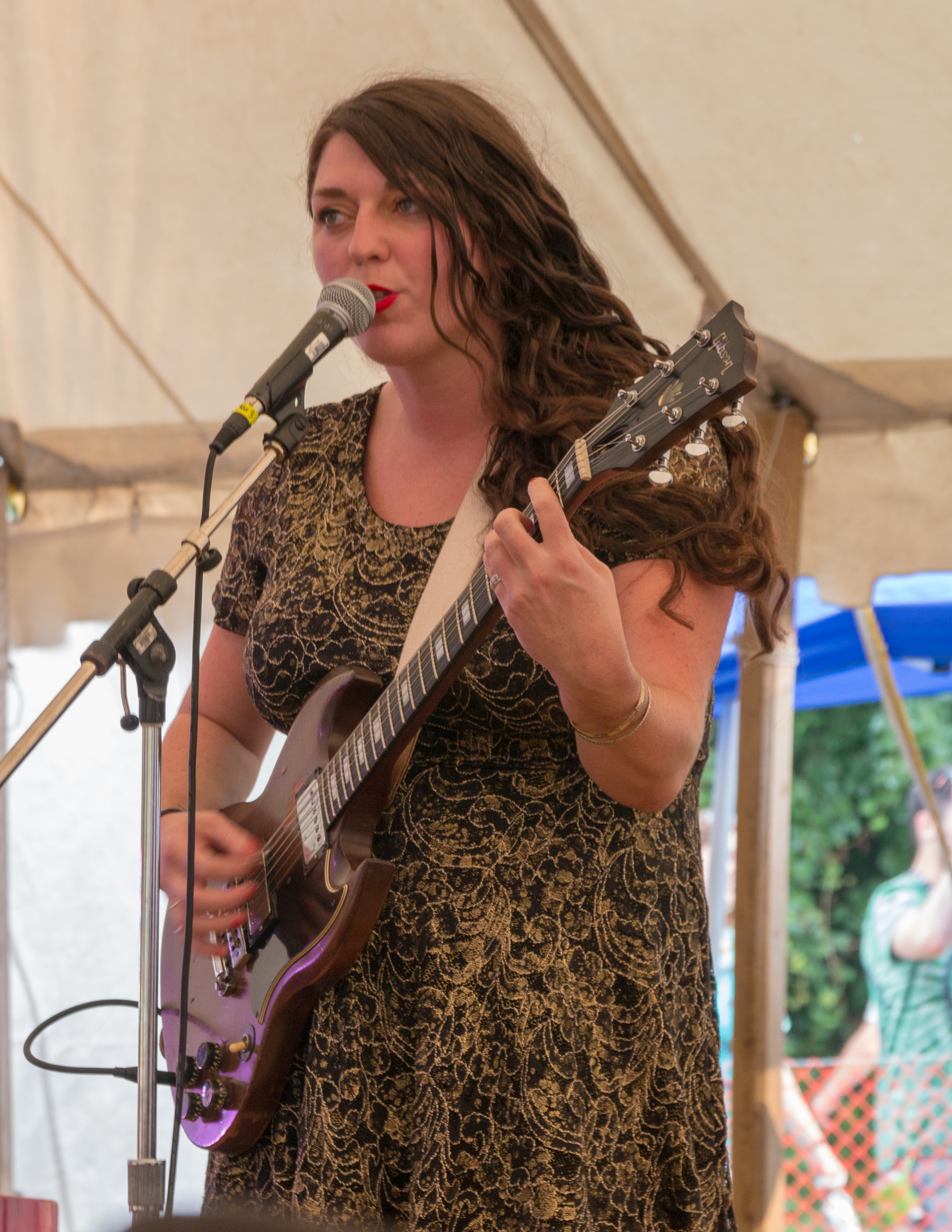 Singer-songwriter Terra Lightfoot performing at Hillside Festival in Guelph, ON